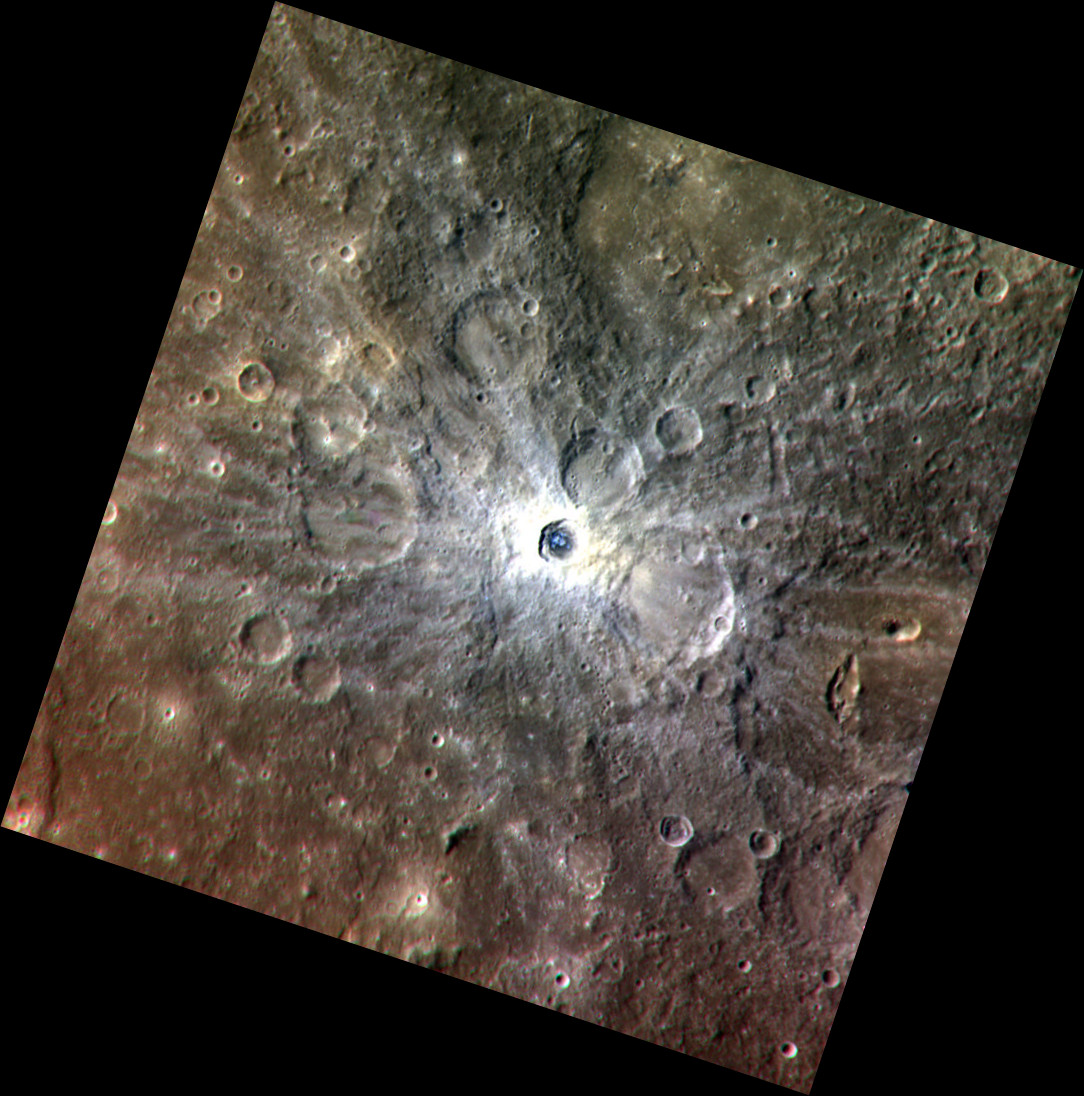 David crater on Mercury. Approximate color representation combining three images acquired by MESSENGER Wide Angle Camera (EW0237000734I, EW0237000738F, EW0237000754G) with I (996.2 nm), G (748.7 nm), and F (433.2 nm) filters. Combined in GIMP software as RGB (Red-Green-Blue), and then rotated so that north is up. Statistics for I image: Emission Angle: 12.1 Incidence Angle: 41.2 Latitude: -17.7 Longitude: 67.7 Phase Angle: 52.4